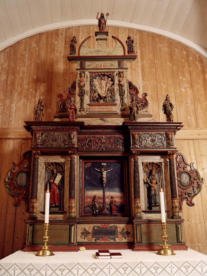 Altarpiece in Brandval church by woodcarver Lauritz Lauritzen from 1651, painted by Thomas Blix in 1728.